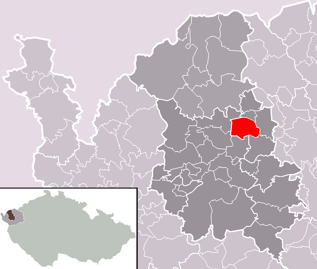 Location of Vintířov municipality within Sokolov District and administrative area of Sokolov as a Municipality with Extended Competence.